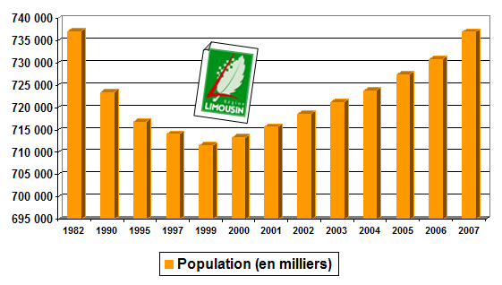 Population in Limousin (French region) from 1982 to 2007